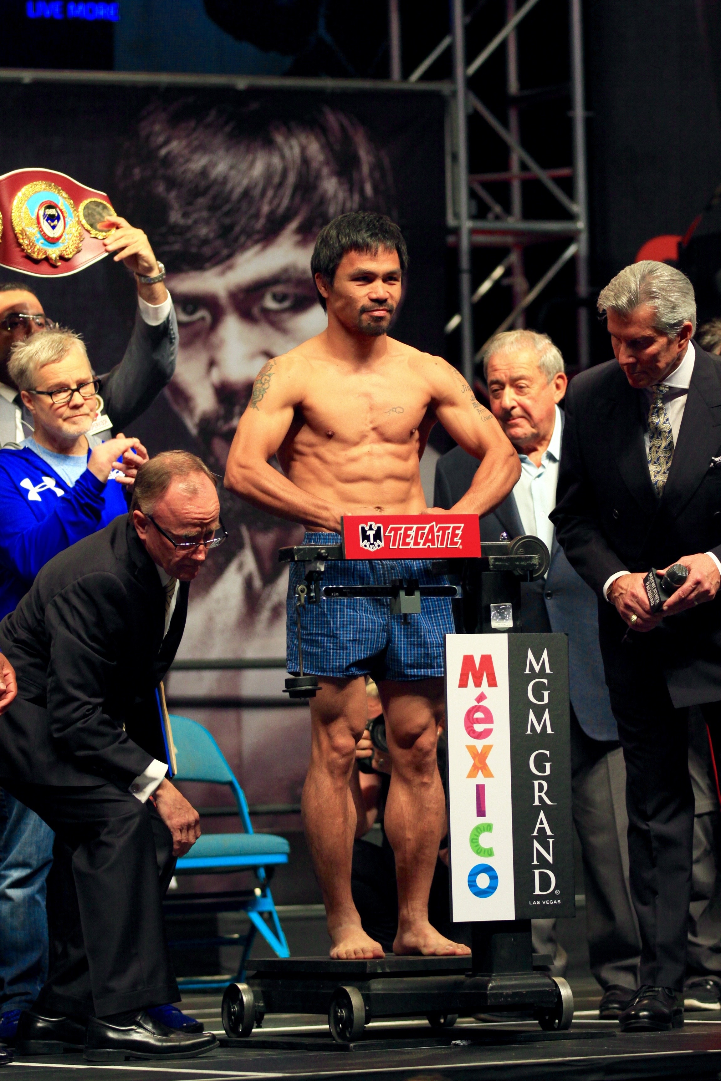 Pacquiao during the official weigh-in for his 2 May 2015 match against Floyd Maywether Jr.